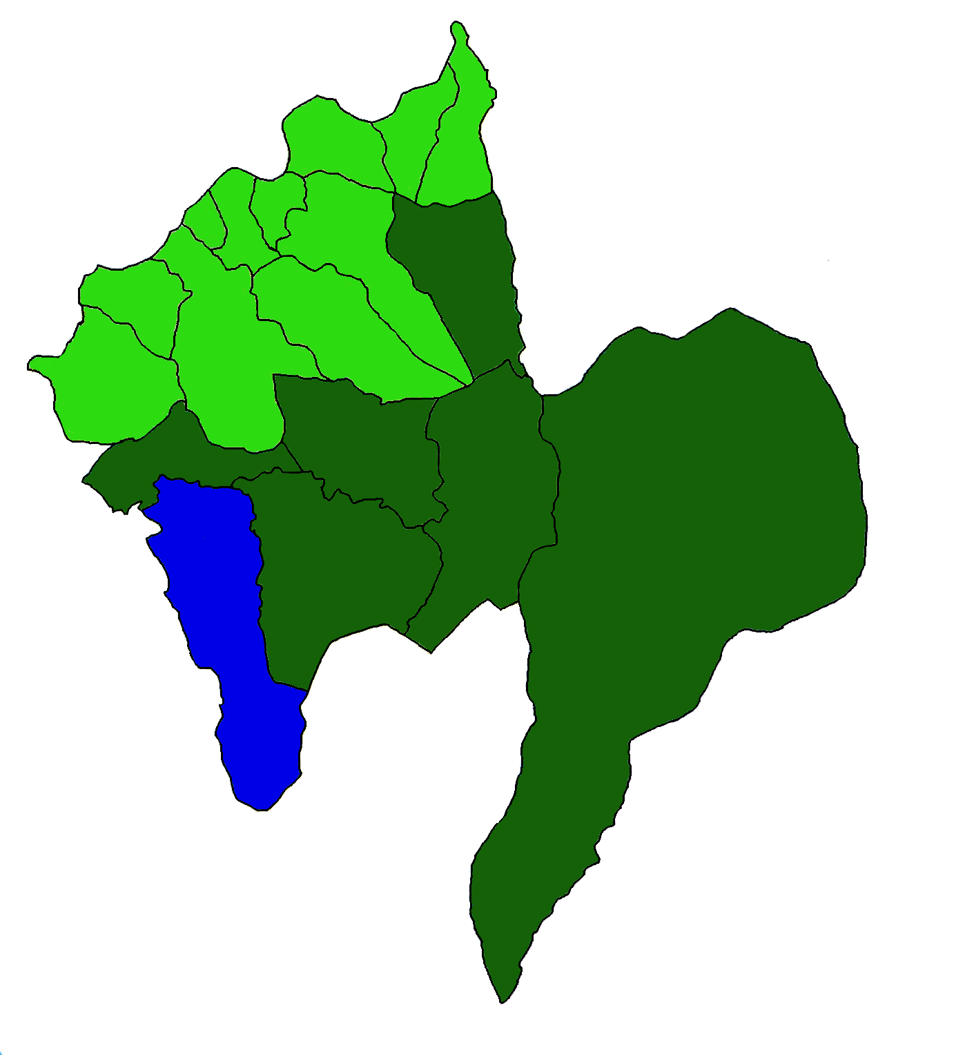 Map of Gave in Melgaço, Portugal